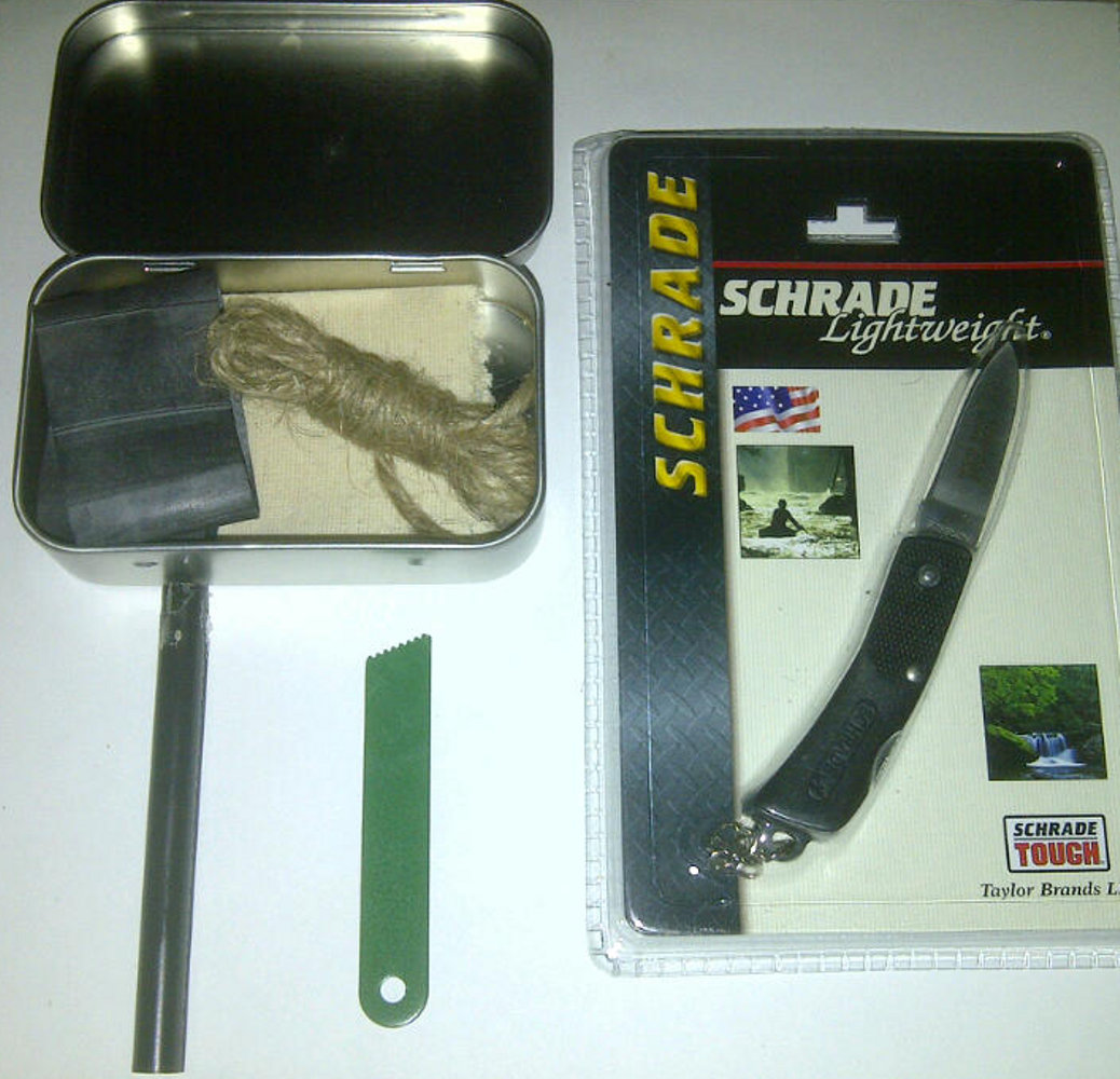 This is a survival kit containing multiple items for making fire. Having the means to make fire in a survival situation can be the difference between life and death. Kit is sold by Noreast Outdoor & Survival. It contains: kindling (twine, cloth, paper, etc.), a tin, a flint, a knife, a cutting razor, etc.